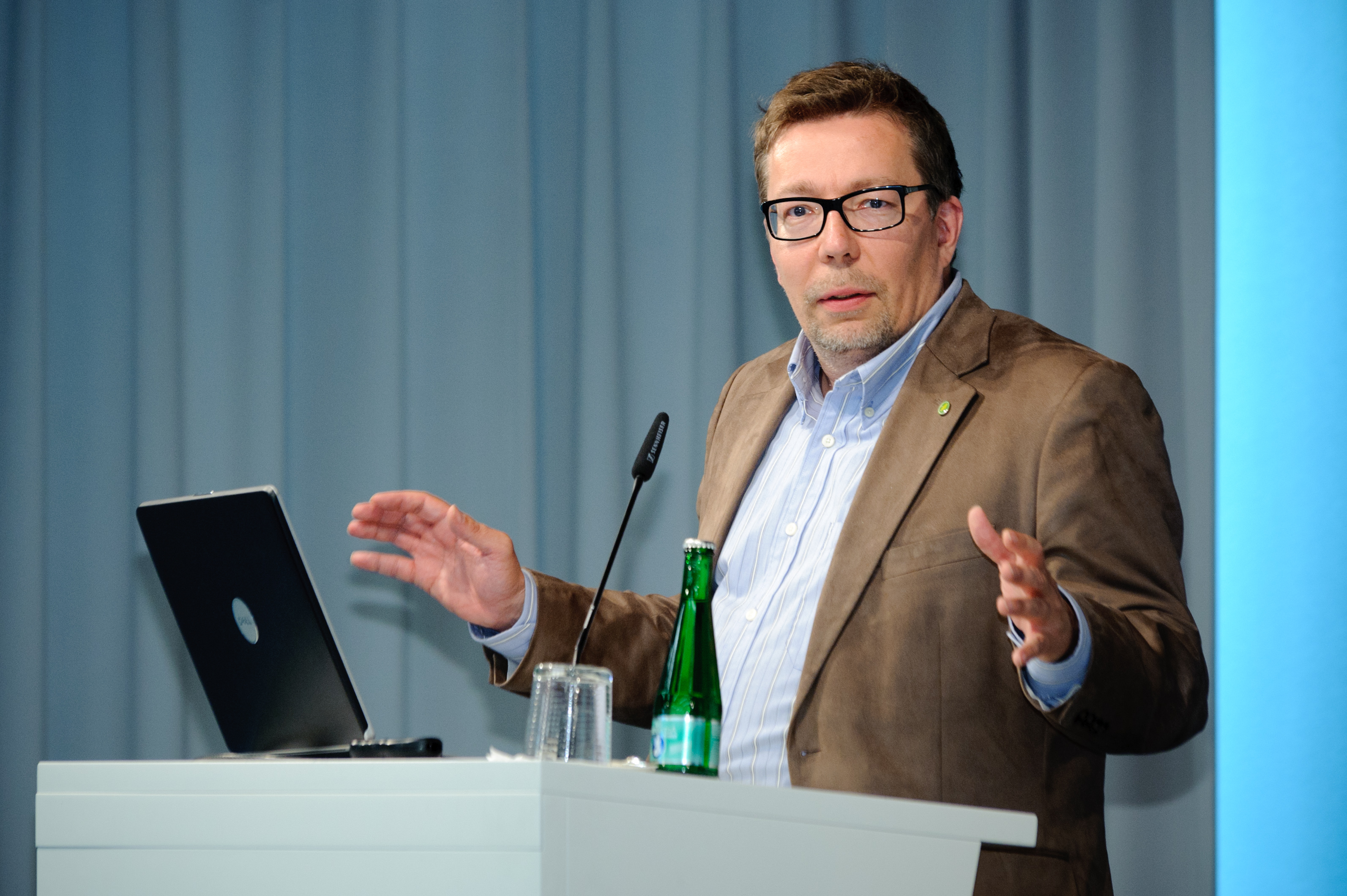 Lari Pitkä-Kangas (Mayor for Consumer Affairs, City Ecology and Development, Malmö) Foto: Stephan Röhl